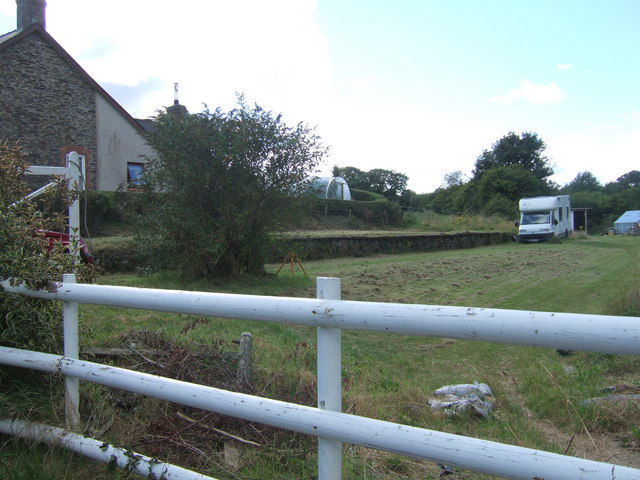 Old railway halt This is all that remains of the halt at Glogue. It appears to have been incorporated into a private garden but the old platform is clearly visible. The Whitland & Taf Vale Railway was incorporated on 1 July 1869 to extend its line to Crymych. The Engineer was James Weekes Szlumper of Aberystwyth. The line opened to Glogue on 24 March 1873 and to Crymych in October 1874; in both cases for freight. Passenger services had to wait until 12 July 1875. The line was closed in 1962.